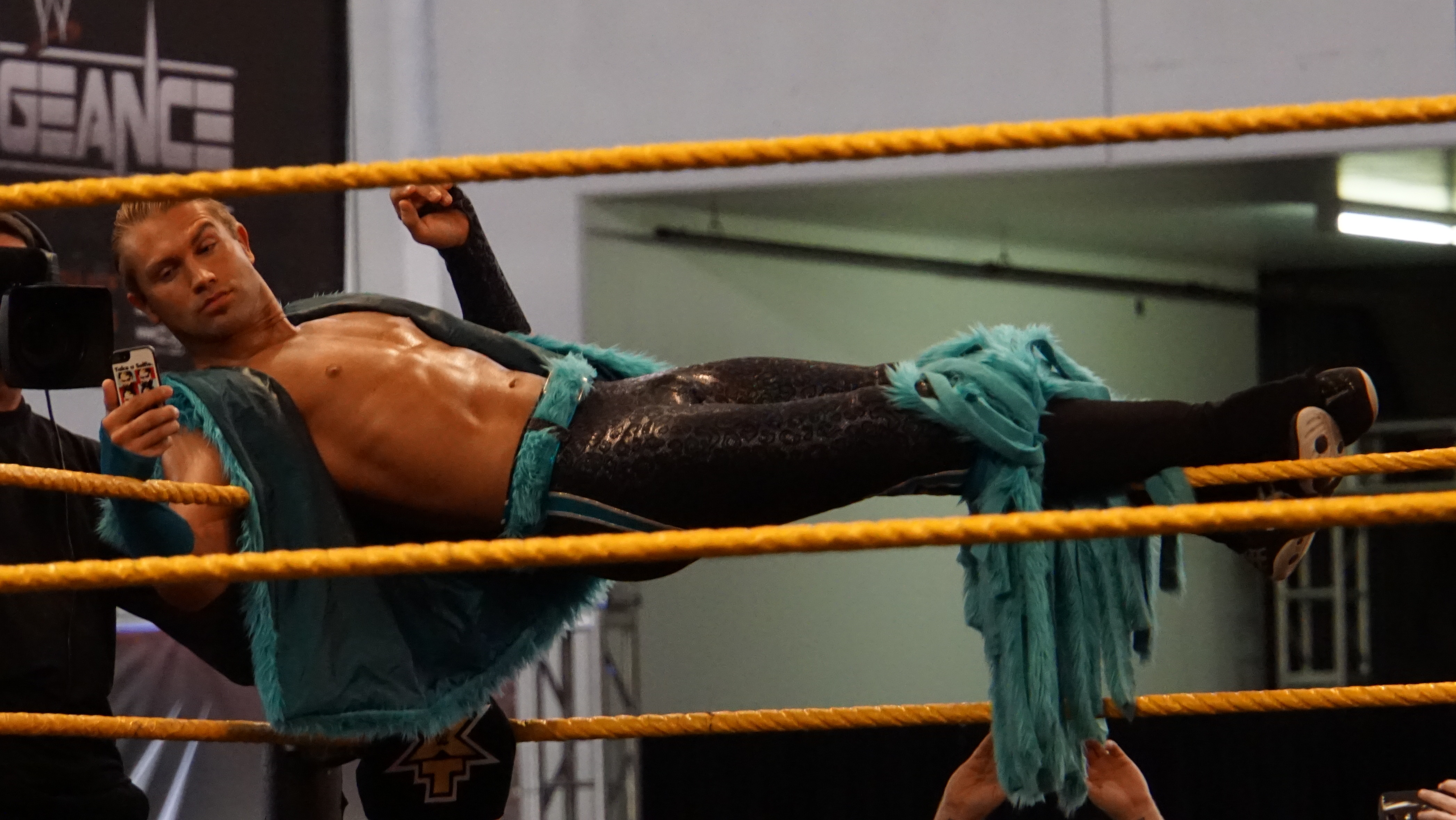 Tyler Breeze posing on the ring ropes at WrestleMania Axxess in March 2015. Cropped from original.